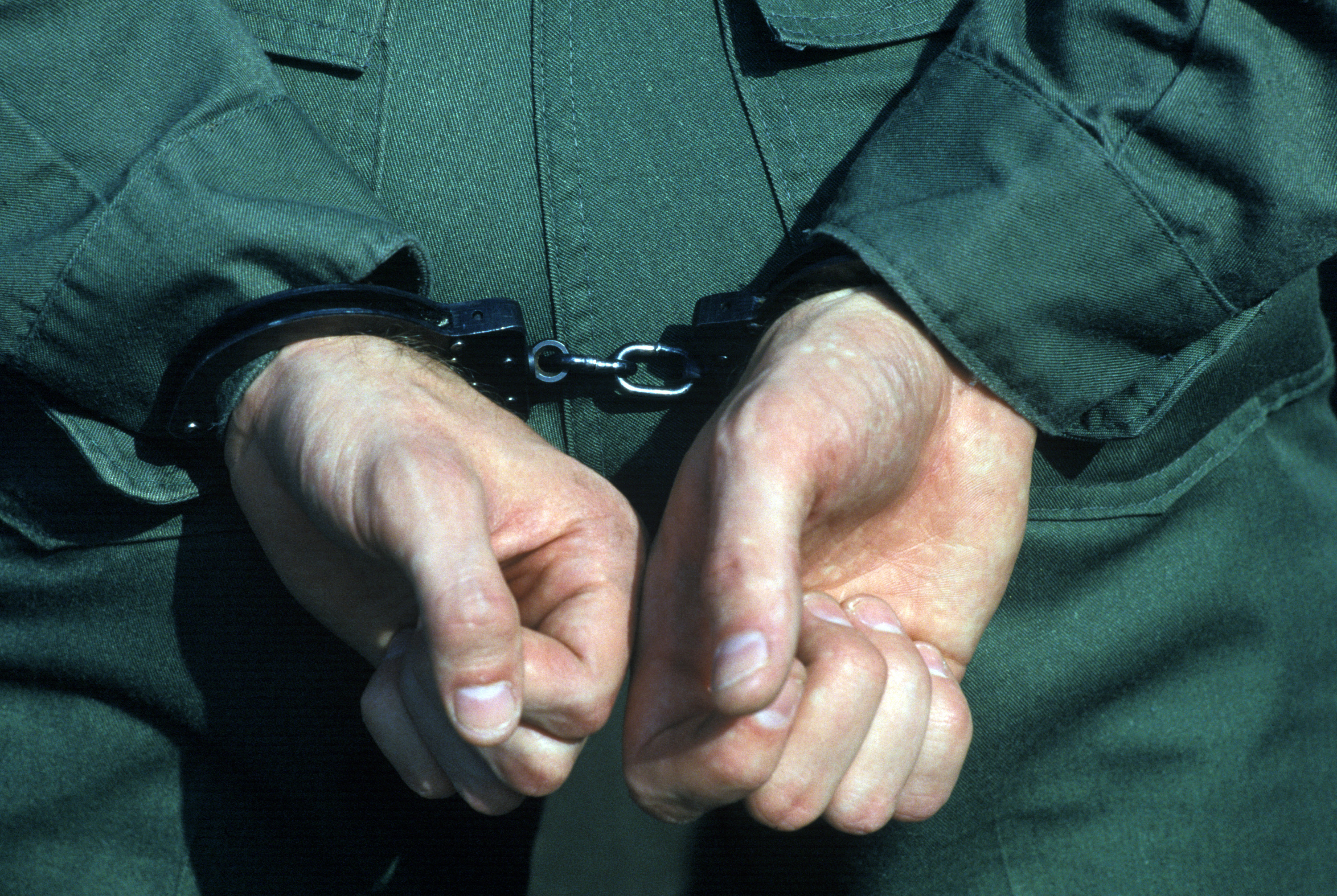 An Airman's hands are secured behind his back with handcuffs during a riot control procedures drill. Security police are preparing the base for a scheduled mass demonstration against the construction of an American cruise missile base at nearby Wuescheim.